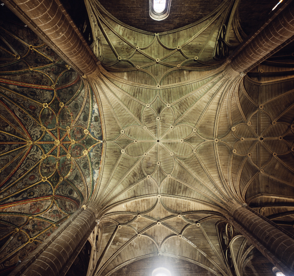 Ref.: PMa_E_110_Logrono; bóvedas; Cultural heritage; Cultural heritage|Cathedral; Europeana; Europe|Spain|Logroño; Catedral; Logroño; Spain; La Rioja, La Rioja; Photographer: Paul M.R. Maeyaert; © Paul M.R. Maeyaert